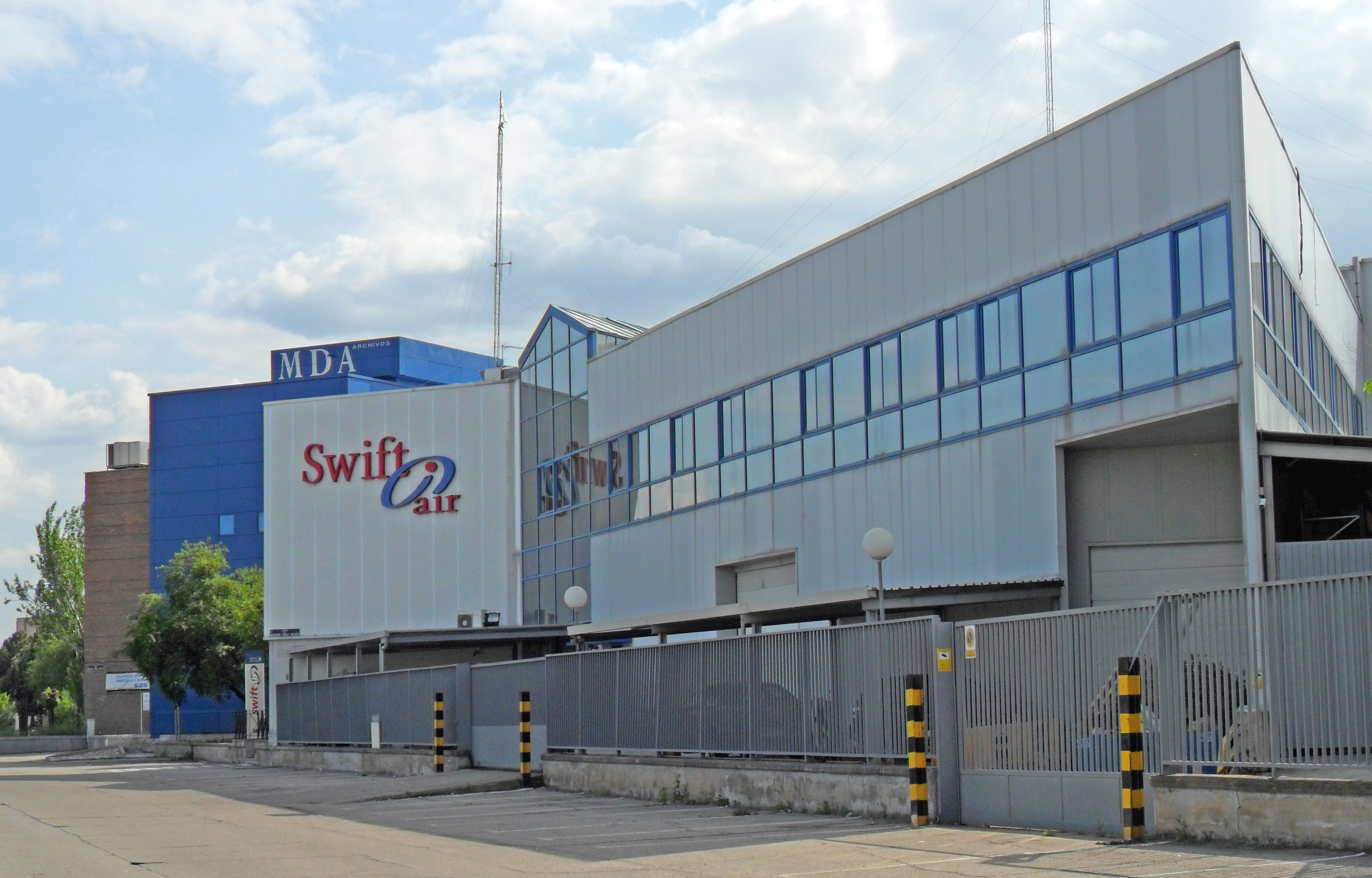 View of Swiftair's headquarters, at 14th Calle del Ingeniero Torres Quevedo (street) in San Blas-Canillejas District in Madrid (Spain).